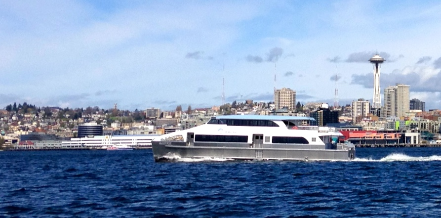 The Sally Fox traveling on the Puget Sound from Pier 50 in Downtown Seattle to Vashon Island with the Space Needle and the Seattle waterfront in the background.